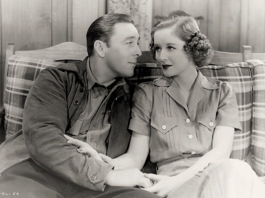 George O'Brien & Beatrice Roberts in Park Avenue Logger - cropped screenshot